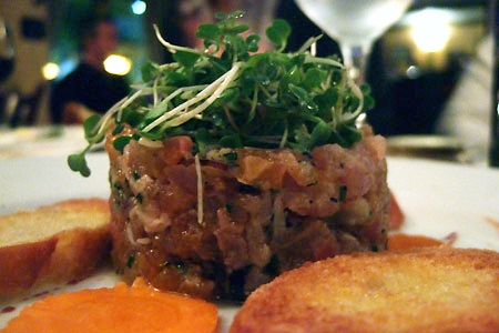 Marinated salmon and tuna tartar, sliced natural almond and hazelnut oil